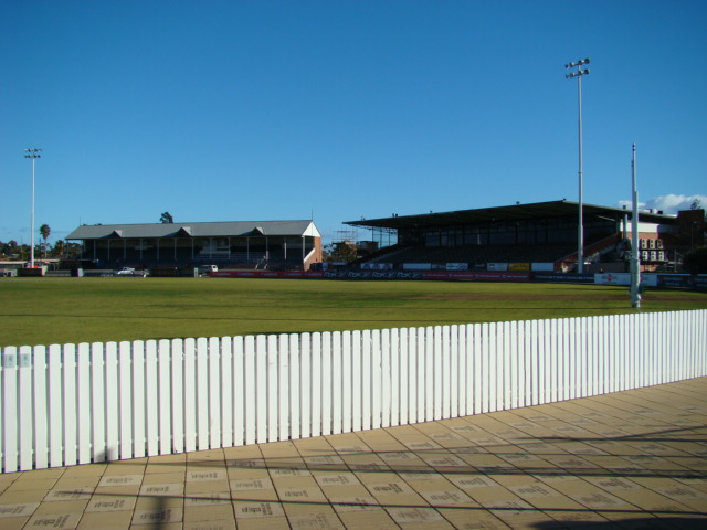 View across Alberton Oval towards the Fos Williams Stand.